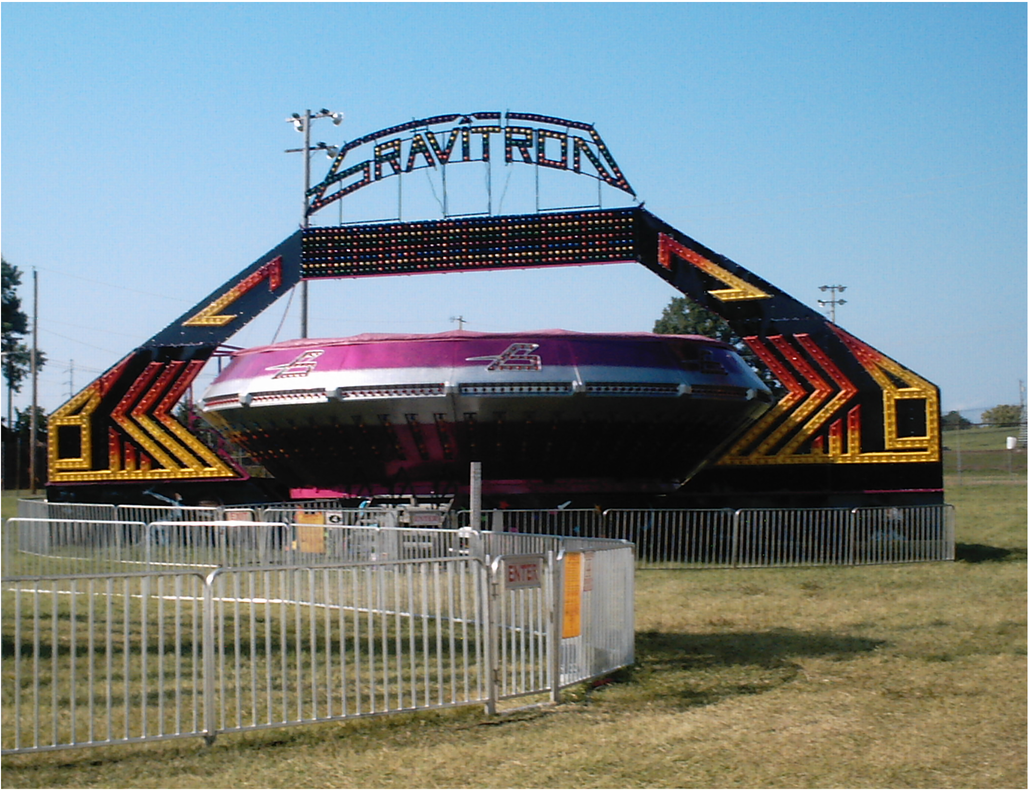 Cropped Version